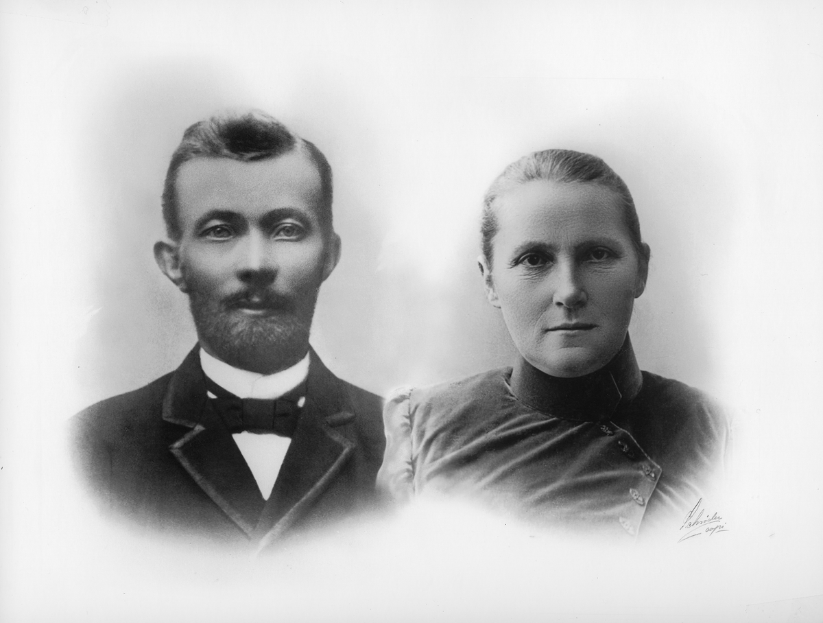 Editor and publisher of Nuorttanaste